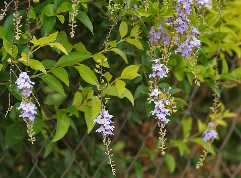 Duranta erecta - Duranta, Sky Flower, Pigeon Berry, golden dewdrop, Honey Drops, Aussie Gold, Piwali Mendiat (Marathi) - Ananthagiri Hills, in Rangareddy district of Andhra Pradesh, India.